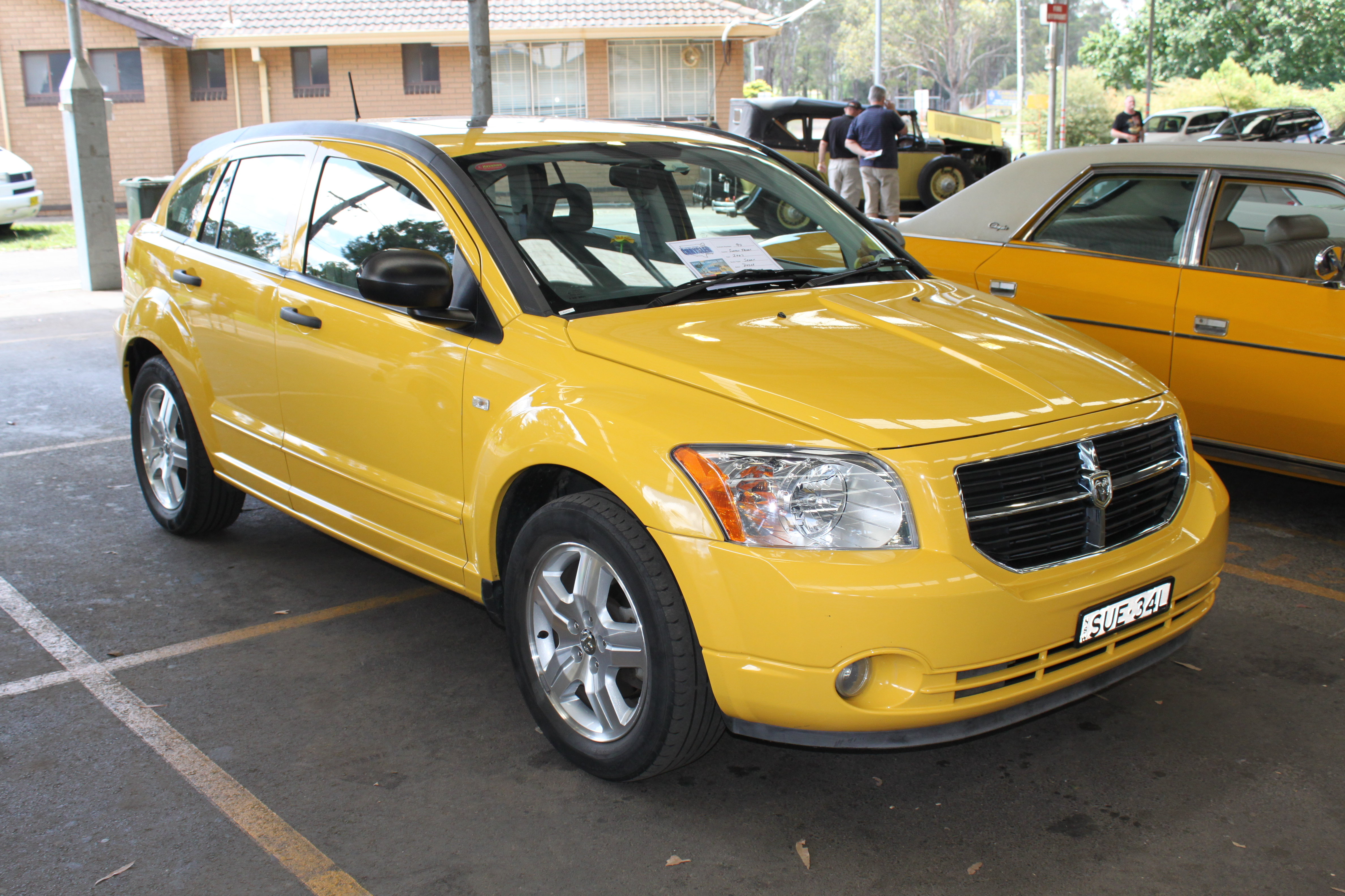 Dodge Caliber